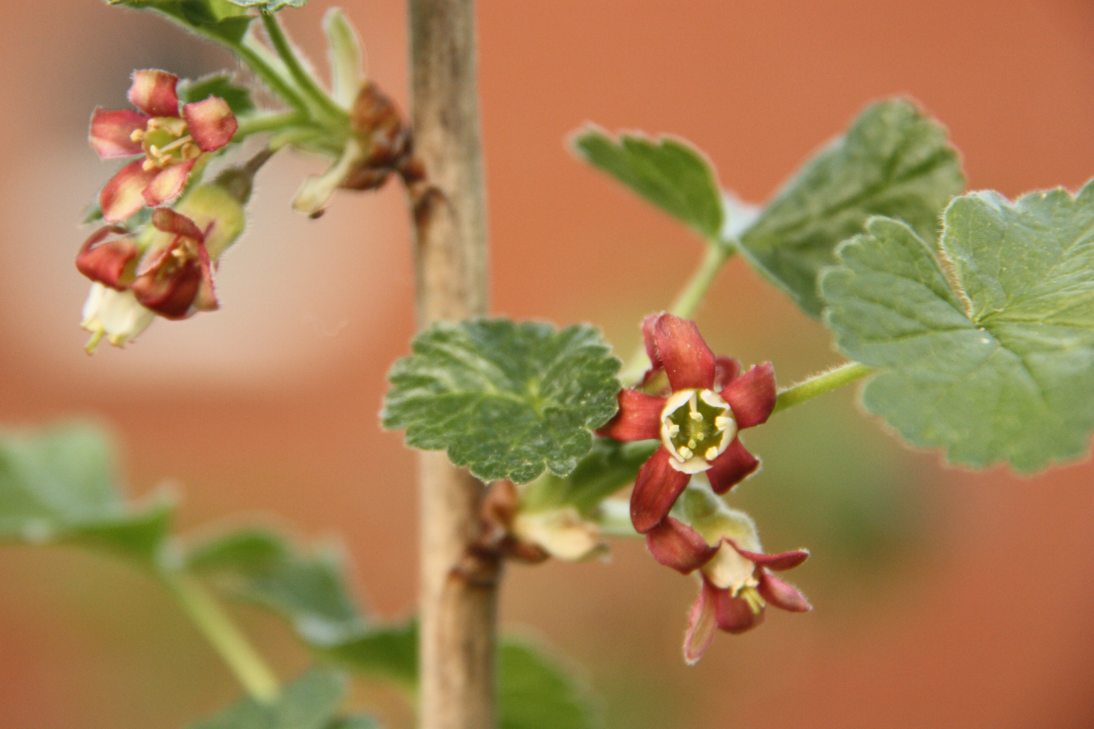 Flowers of jostaberry.